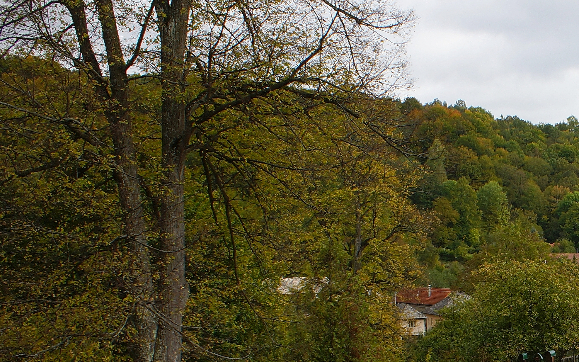 Kováčová (Okres Rožňava) - Hill, forests and few houses.